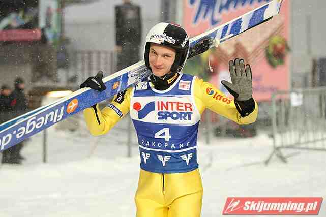 Tomasz Byrt during friday competion of FIS Ski Jumping World Cup in Zakopane, 2012